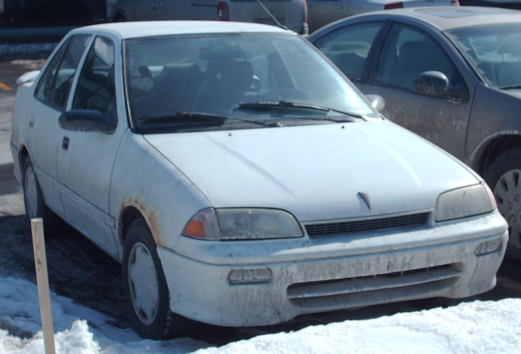 1994 Pontiac Firefly photographed in Montreal, Quebec, Canada.